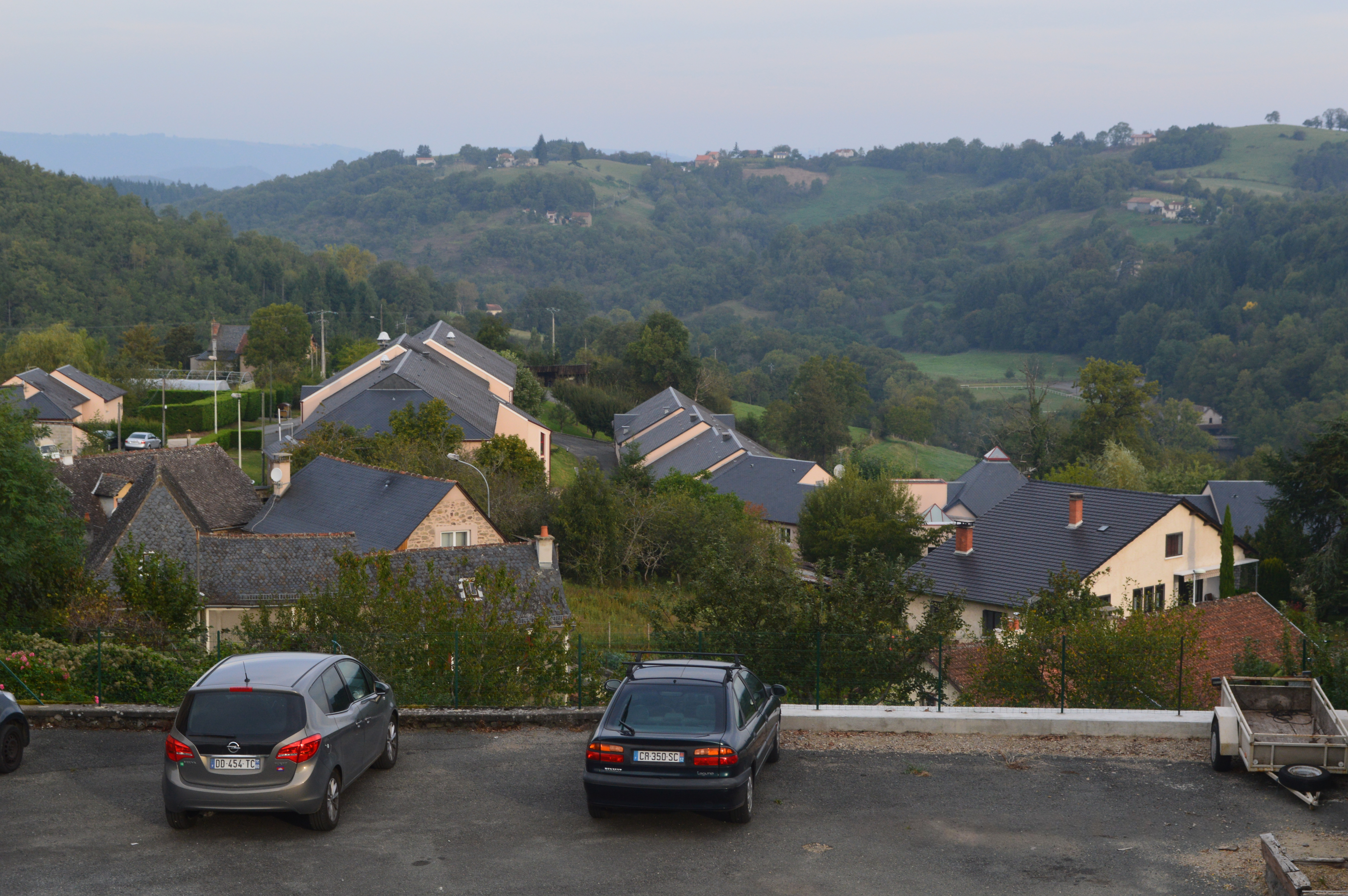 Auzits Village